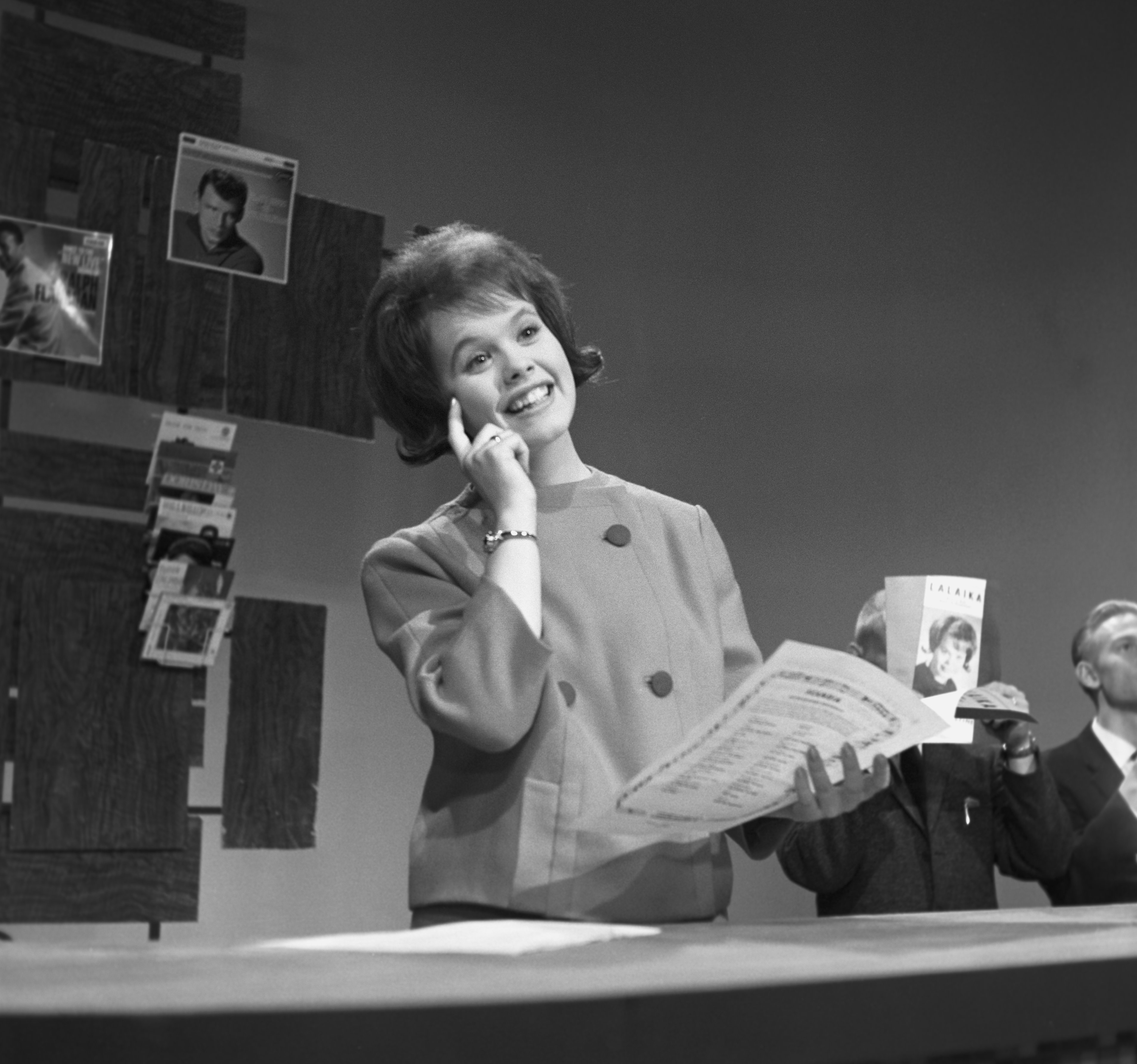 Photograph of the Finnish vocalist Ann-Christine Nyström-Silén (1944–) appearing in the television show Iskelmäkaruselli.